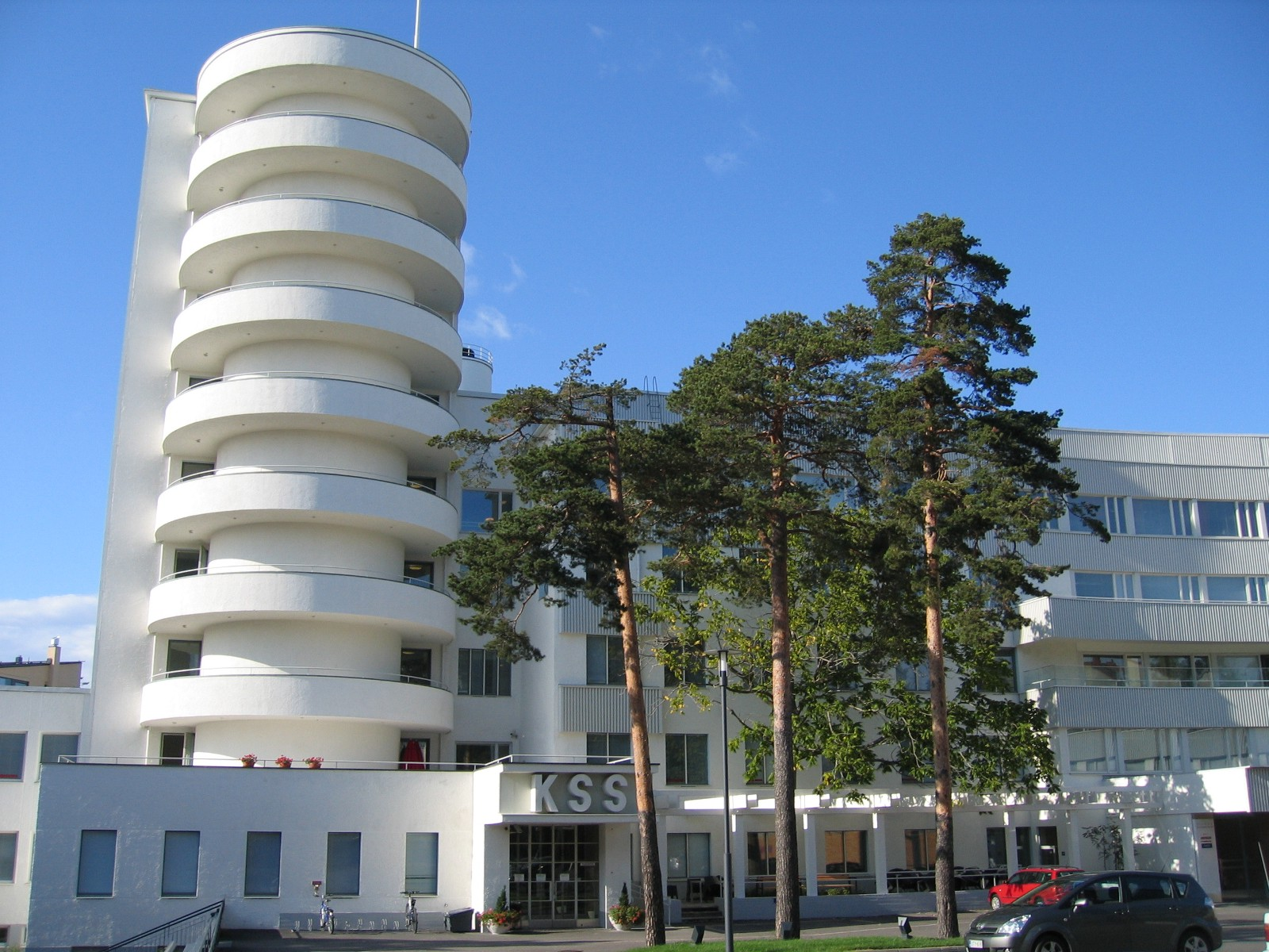 Tilkka, the former central military hospital, Helsinki, Finland. Built 1936, architect: Olavi Sortta.